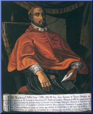 Cardinal Juan Álvarez de Toledo (1488-1557)